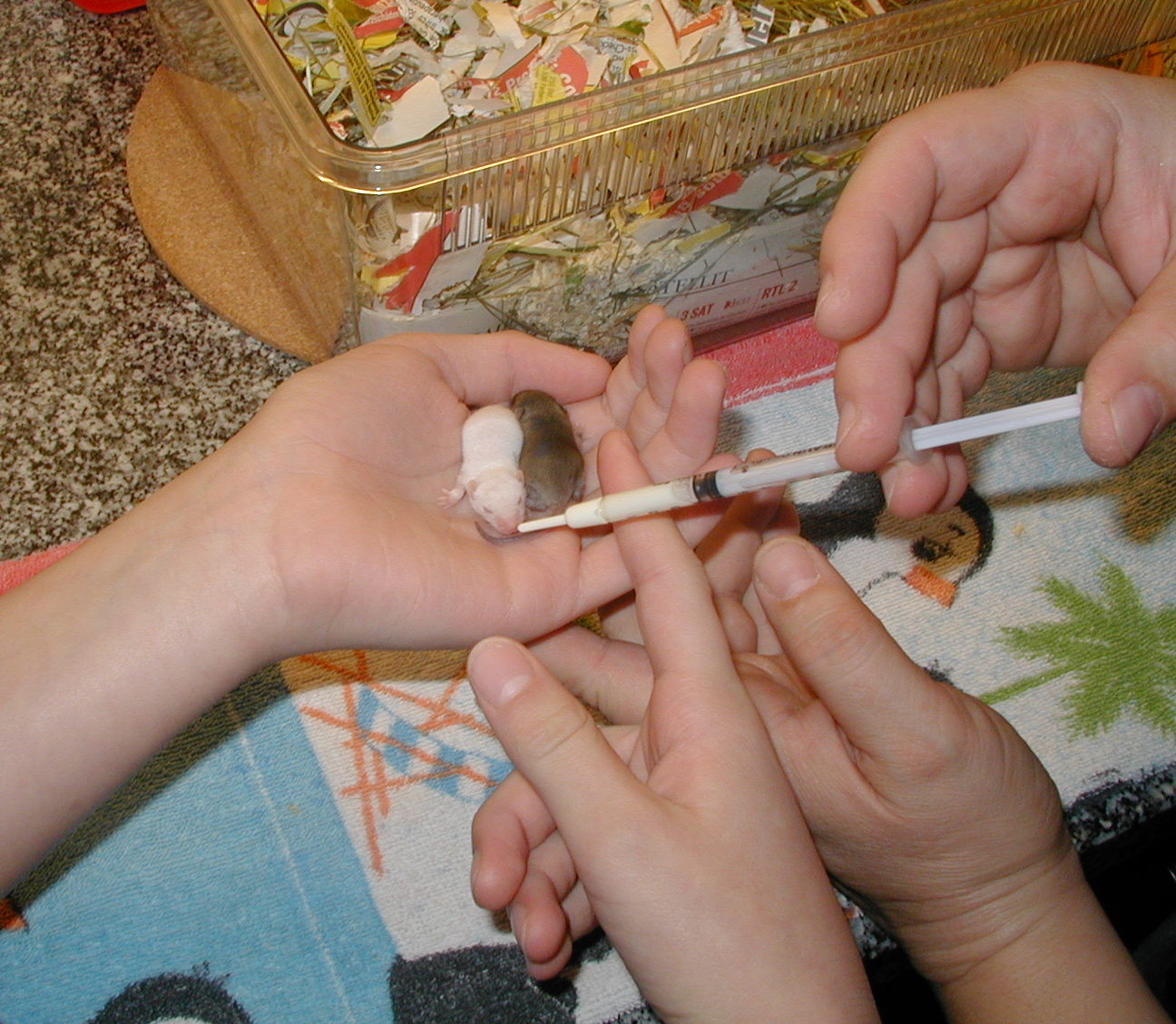 Mice (* 15 Nov 2004) - 10 days old, being hand-fed. Picture uploaded by Kessa Ligerro.